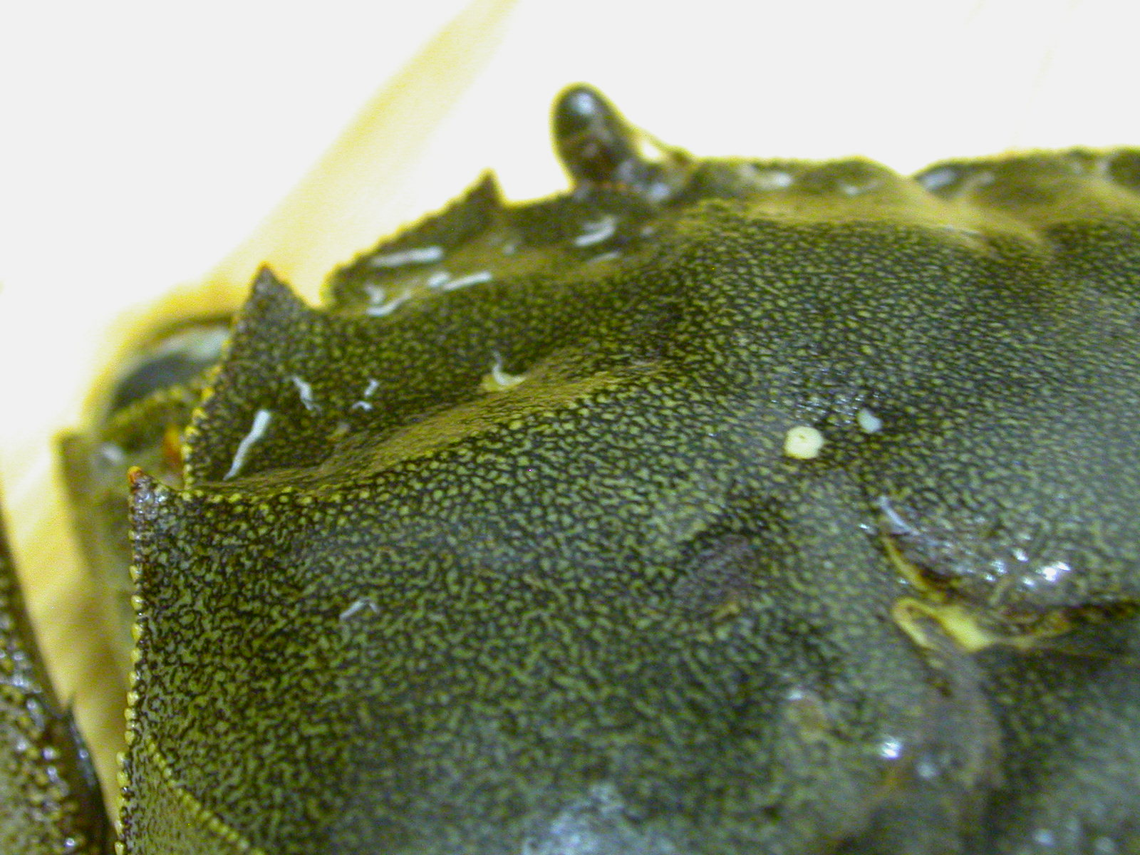 モクズガニの体色(color pattern of japanese mitten crab)